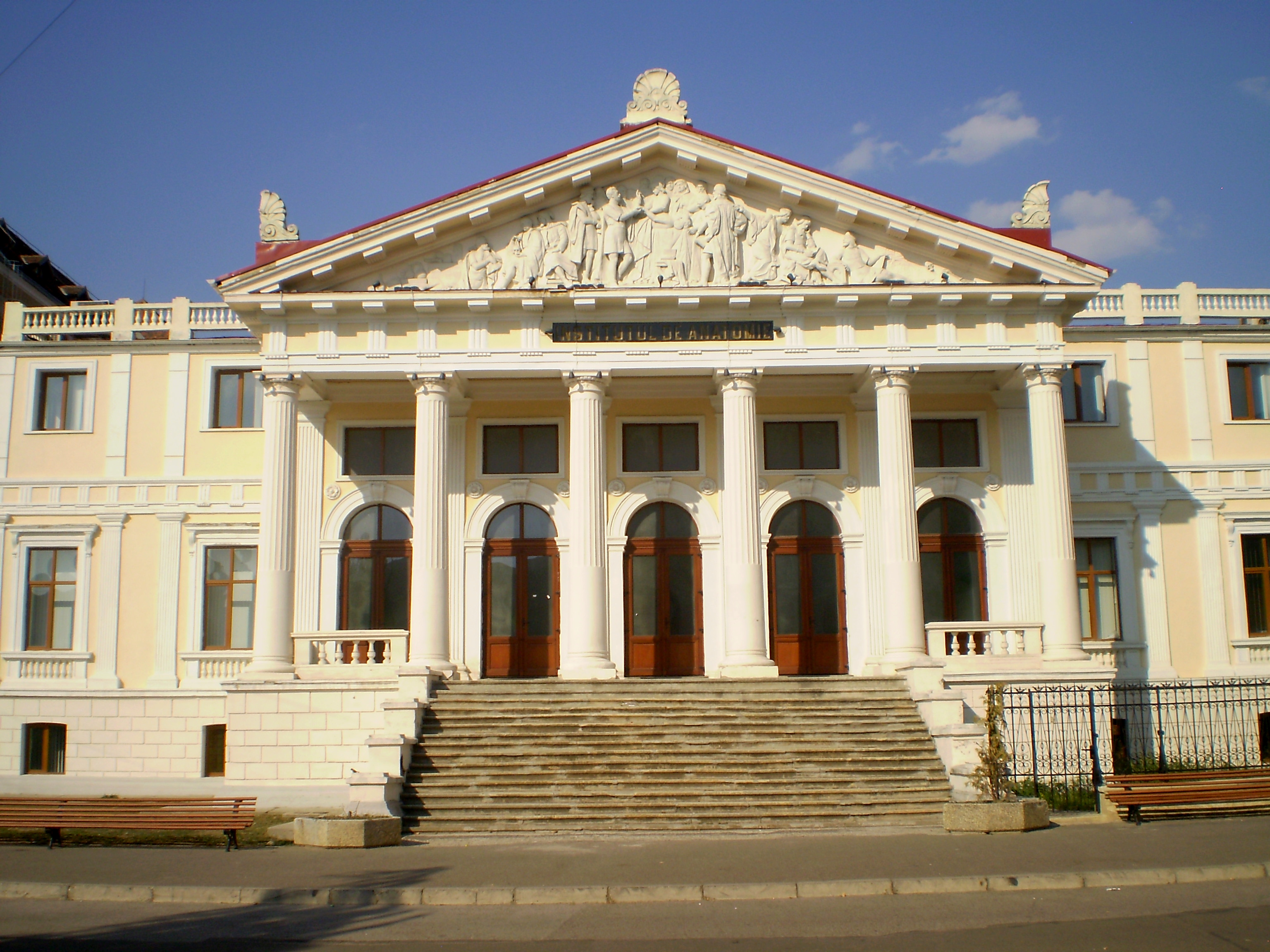 Iasi , Institute of Anatomy , Iaşi , Romania